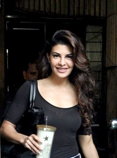 at Bandra